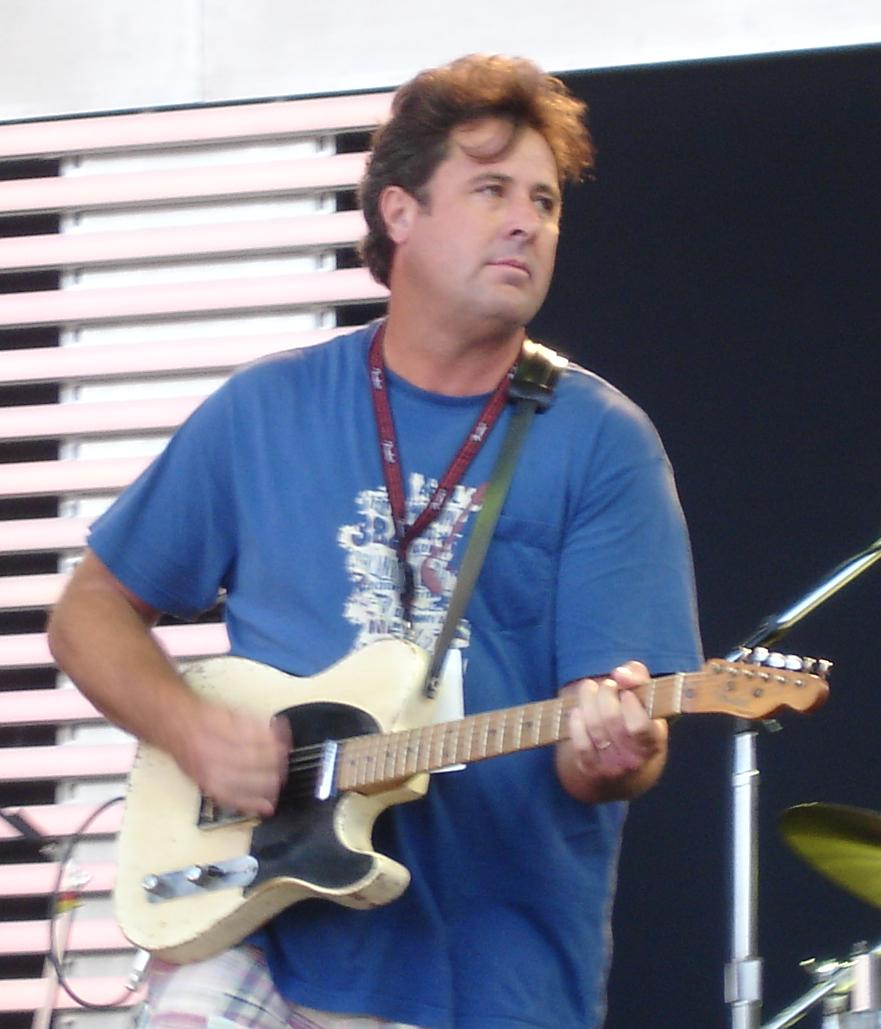 Vince Gill playing at the Crossroads Festival in 2007